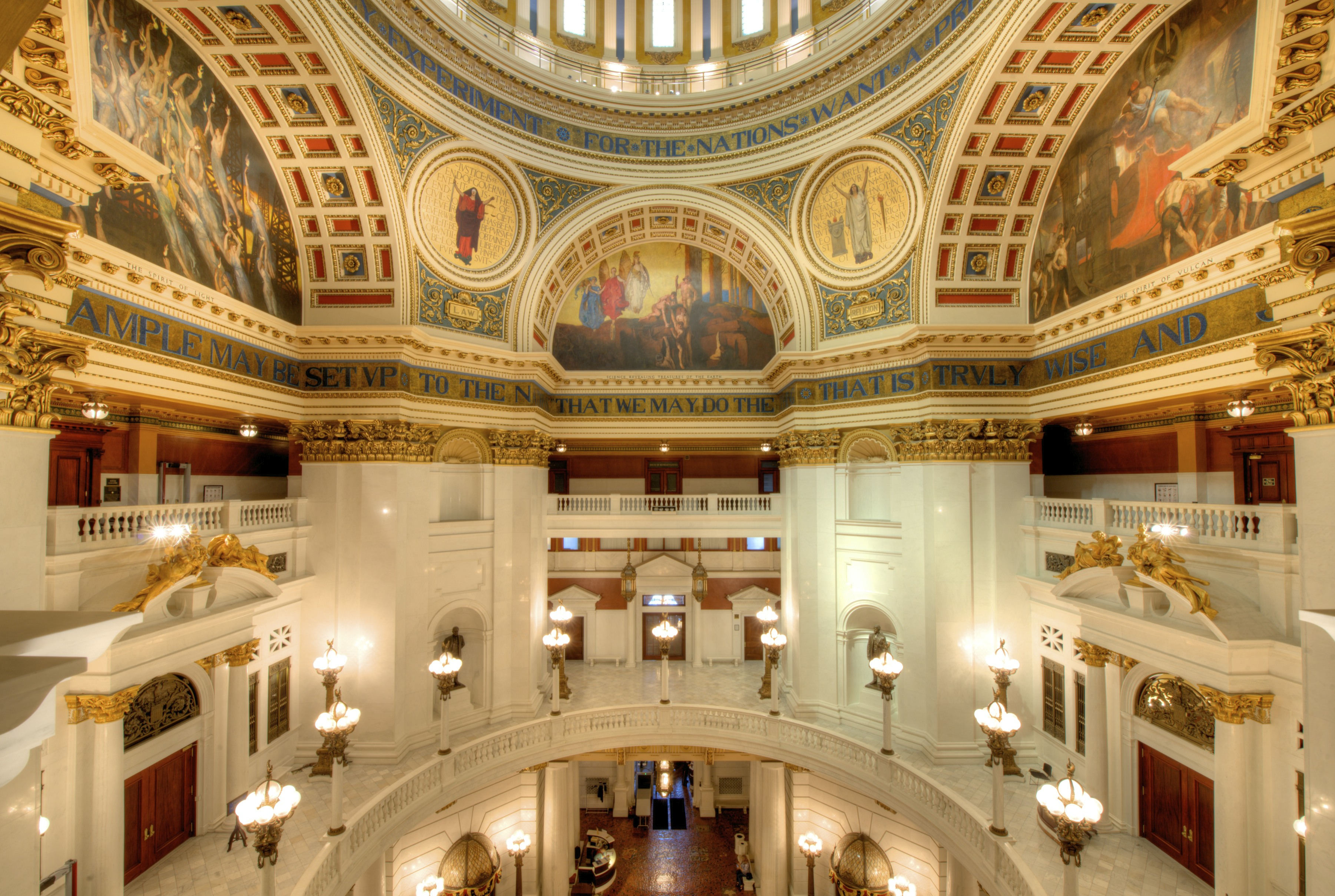 A view across the Rotunda.